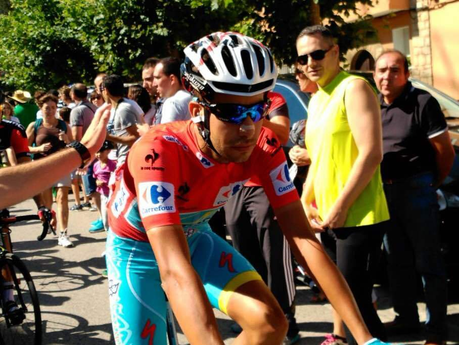 Fabio Aru (Astana) with the red jersey during 2015 Vuelta a España